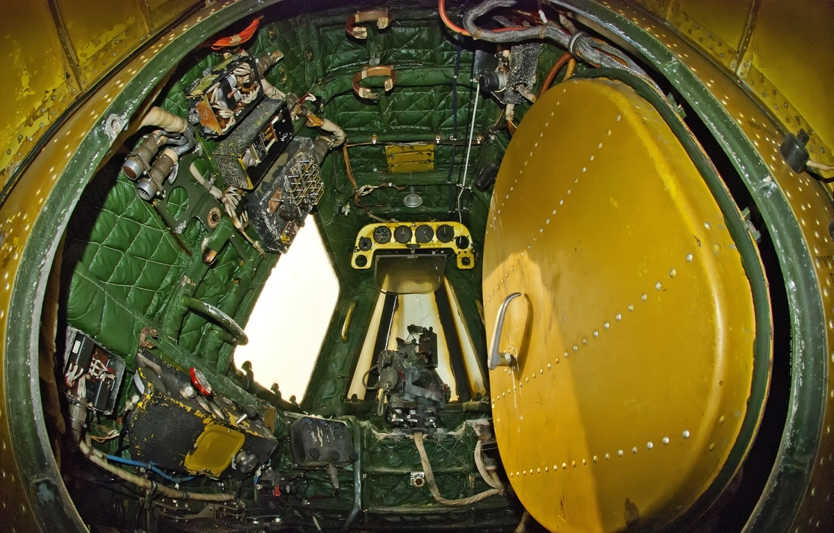 Input into the cockpit for a gunner. An-12 04red.